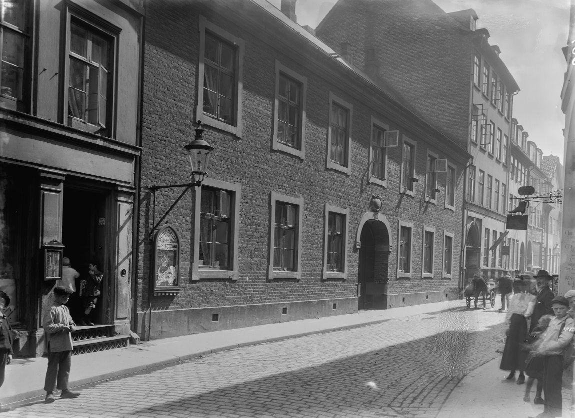 Poul Fechtels Hospital at Møntergade 28 in Copenhagen, The building was demolished in 1909.Denmark.